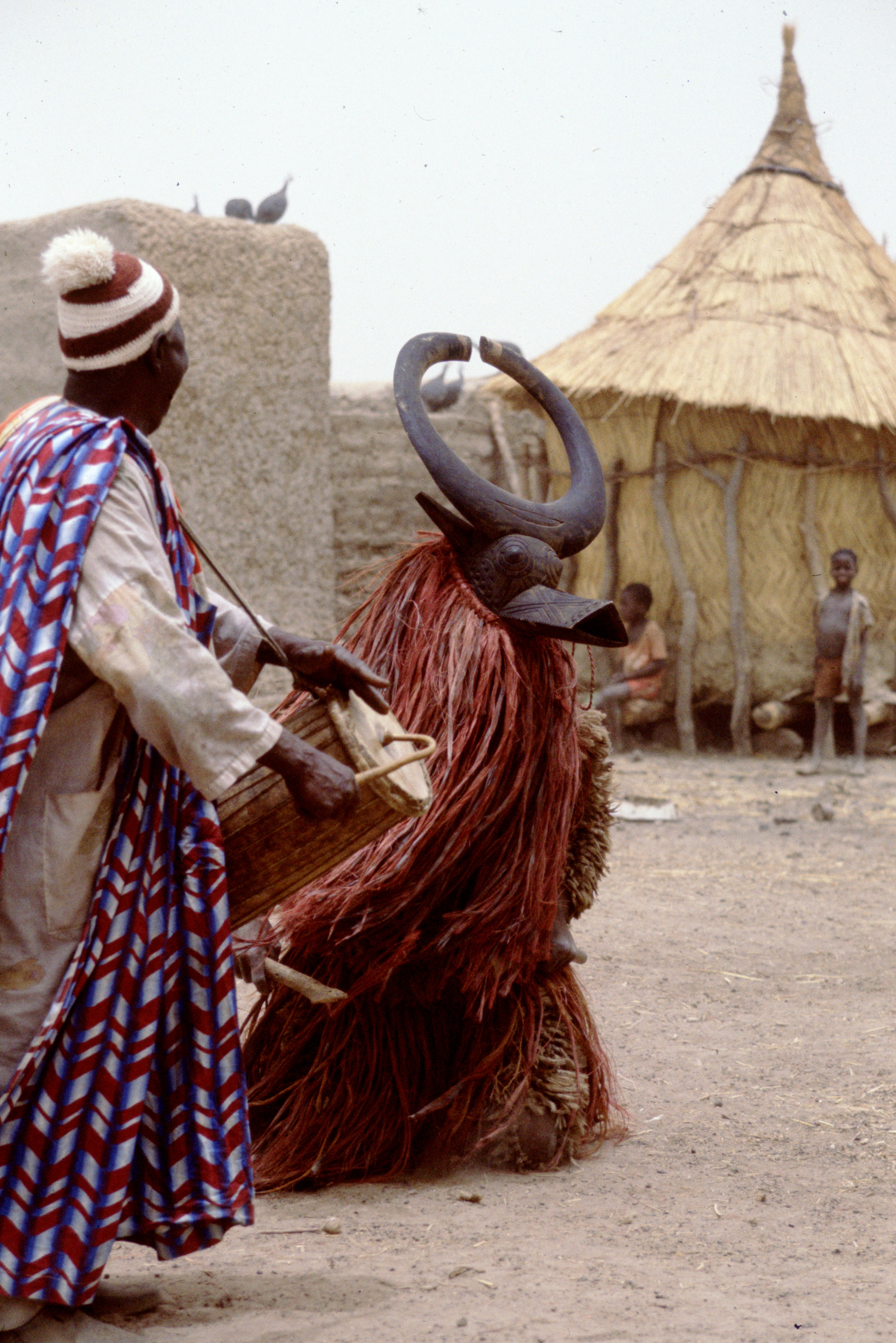 Bwa masks in the village of Dossi. Two plank masks, two crocodile masks, a leper mask, and two buffaloes. Photo 1985 by Christopher D. Roy